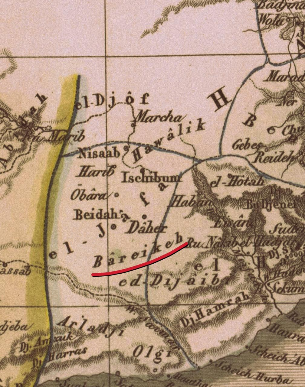 Karl Ritter's map of Arabia in 1852 showing the limits and influence of the Brik, Karl Ritter German geographer is one of the most famous geographers and one of the founders of modern geography. Karl Ritter relied on sources of history and ancient maps of the Greek historian Ptolemy of Alexandria and ancient Muslim geographers, and this map shows the Arabian Peninsula areas and the influence of the tribes. And drawn in the German language to serve his country and nationality to facilitate their influence and dominate the world in the era of conflicts between the Russians and Germans and the English and the Ottomans, which is known as the policy of chess colonial, has shown us in this map the name of the tribe of Brik and areas of influence and borders in the south of the Arabian Peninsula .